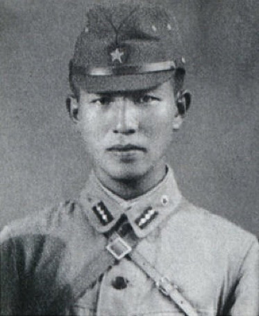 Profile photo of Hiroo Onoda as a young officer.